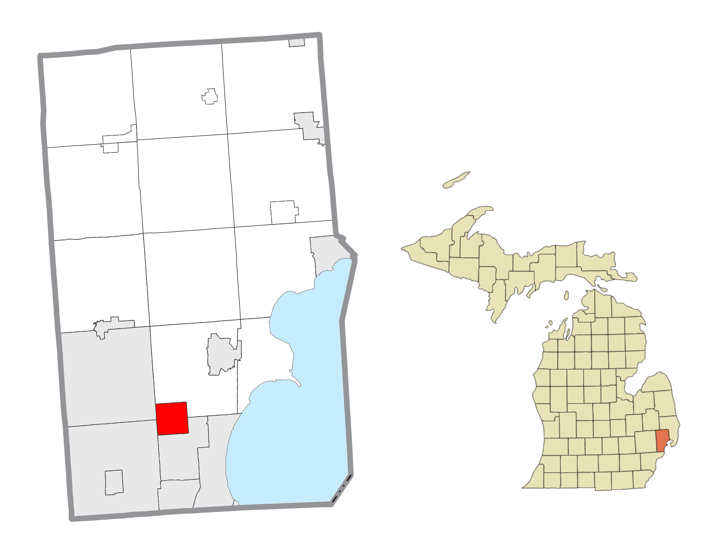 Fraser, MI